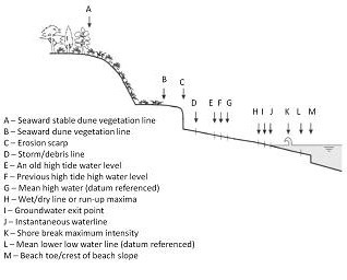 A diagram representing the spatial distribution of many commonly used shoreline indicators.